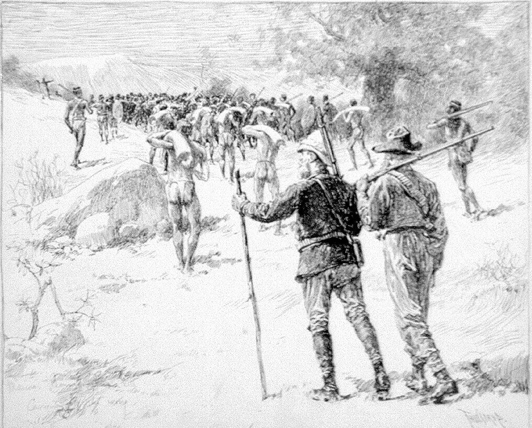 The fictional adventurer Allan Quatermain (center) follows his men carrying a large quantity of ivory, in the H. Rider Haggard novel Maiwa's Revenge: or, The War of the Little Hand (1888).